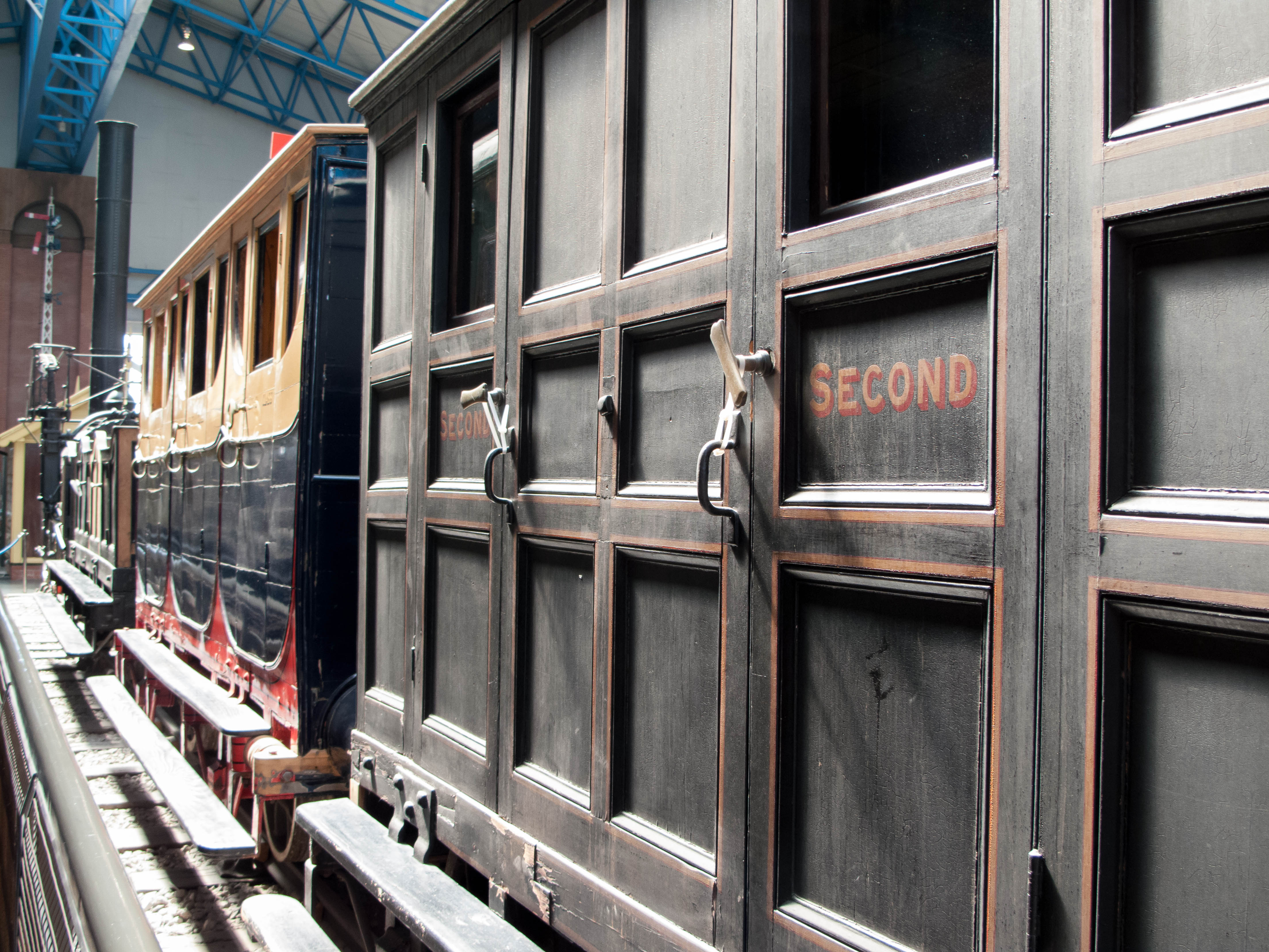 Three railway carriages from the Bodmin & Wadebridge Railway, dating from the 1850s